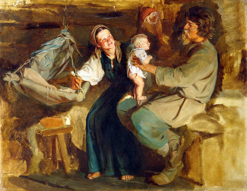 Karl (Kirill) Lemoch. Parental Joy. Kaluga Art Museum.